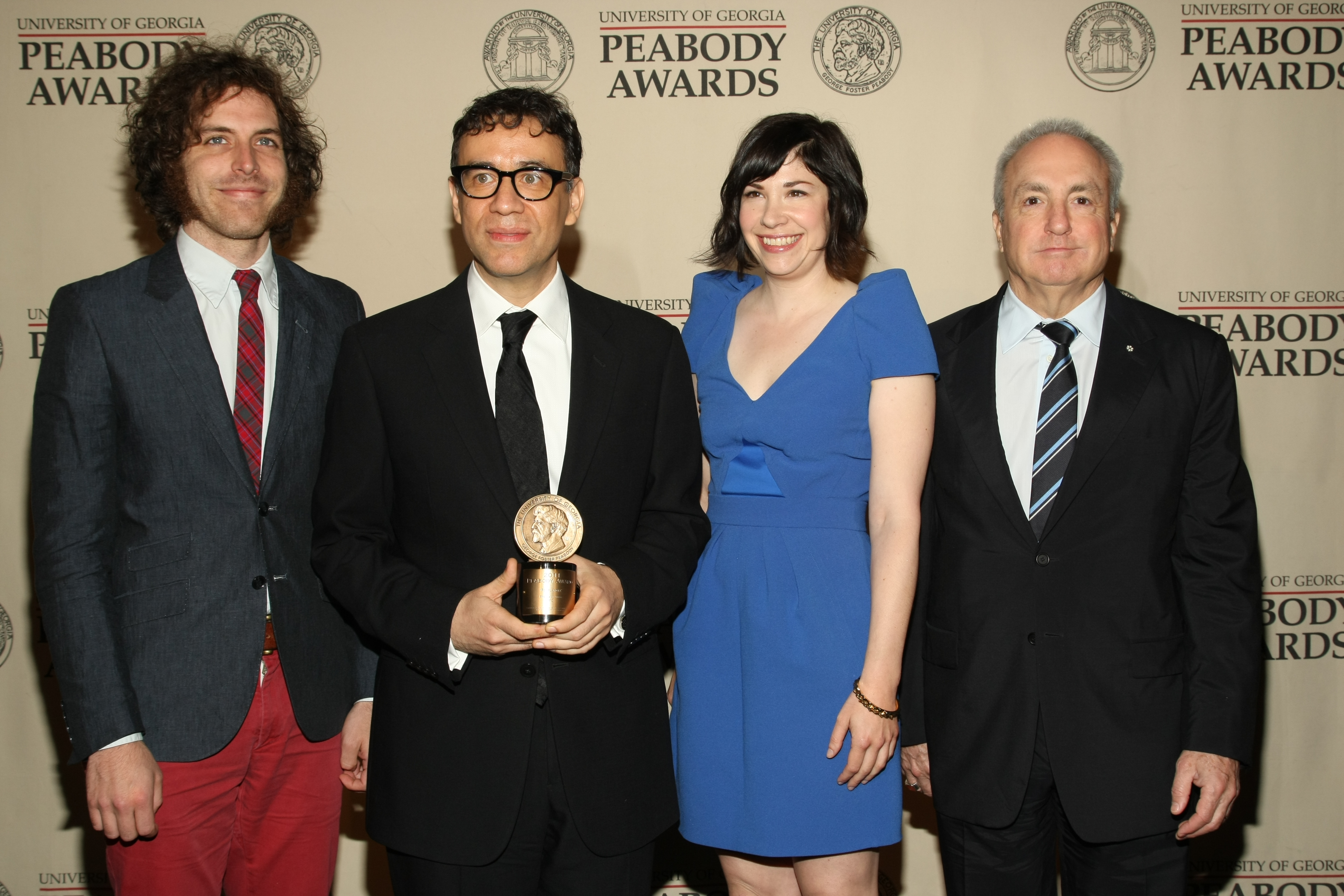 Photo Credit: Anders Krusberg / Peabody Awards Jonathan Krisel, Fred Armisen, Carrie Brownstein and Lorne Michaels at the 71st Annual Peabody Awards Luncheon in the Waldorf-Astoria Hotel; May 21, 2012.